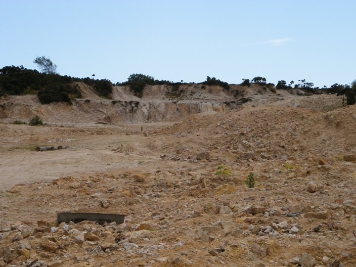 Picture of the Main Opencast at the Hemerdon Ball Mine taken by user of Wikipedia account. The picture is released into Public Domain by the author.